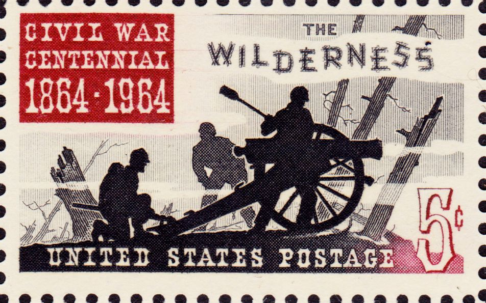 1964 Civil War Centennial Issue - Battle of the Wilderness - 5-cent U.S. stamp.